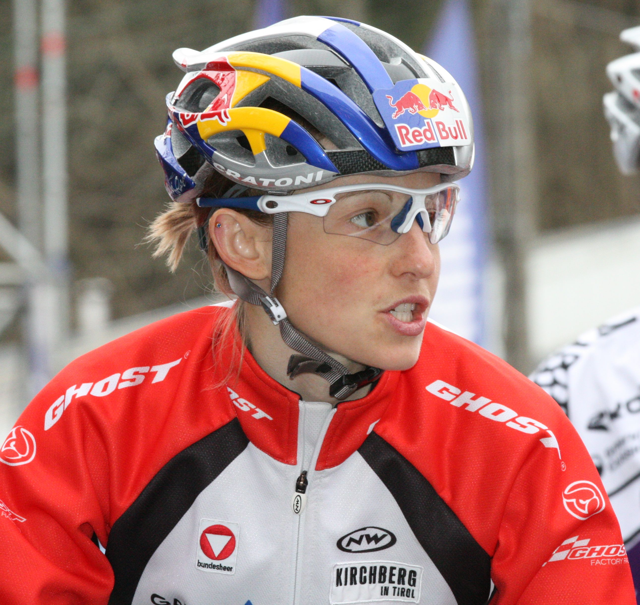 Lisi Osl beim 2. World Cup 2012 in Houffalize (Belgien) am 15.04.2012